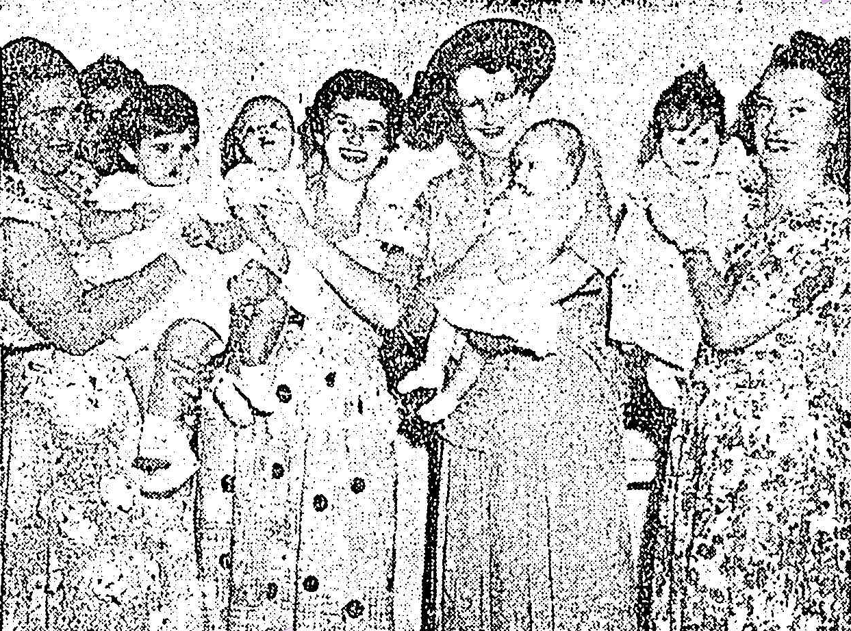 Grace Cuthbert Browne in clinic